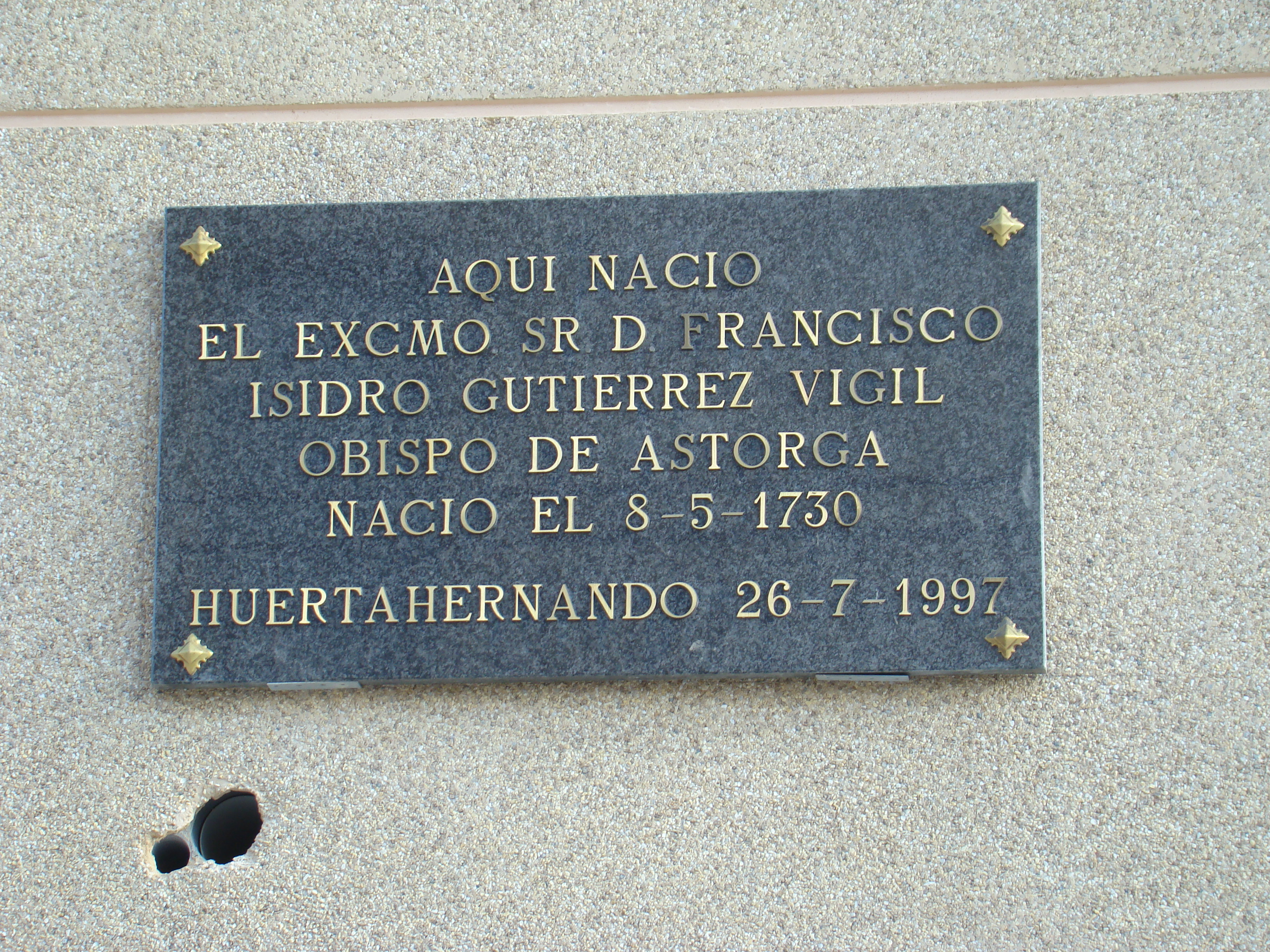 Huertahernando in the province of Guadalajara, Spain. Conmemorative plaque of the bishop of Astorga, Francisco Isidoro Gutiérrez who was born in that town in 1730. The plaque is on the wall of a house built on the ground where the bishop's parents lived. Today the street is named in his honor.